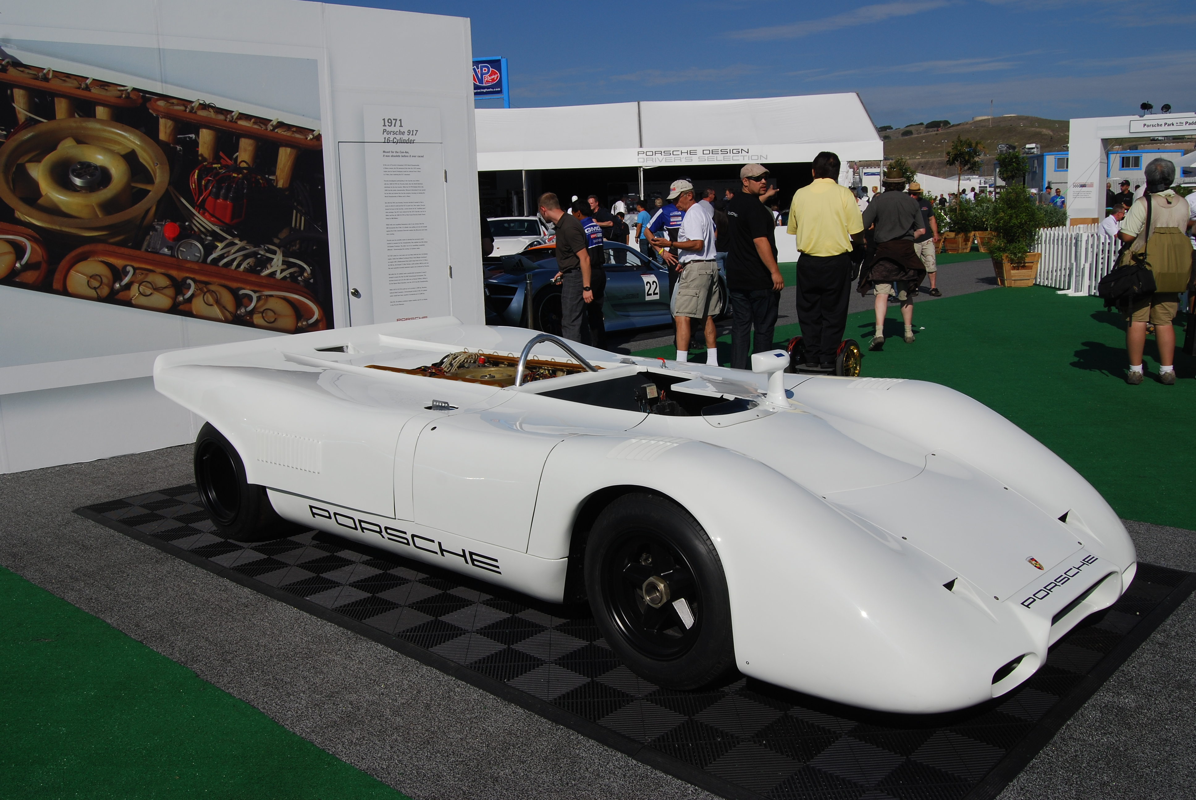 6 litres- in case the 4.5l flat 12 didn't have enough horsepower DSC_0043